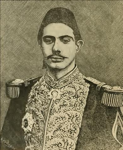 محمد طوسون باشا، ابن والي مصر سعيد باشا. Mohamed Tosson Pasha, Son of Said Pasha, Viceroy of Egypt